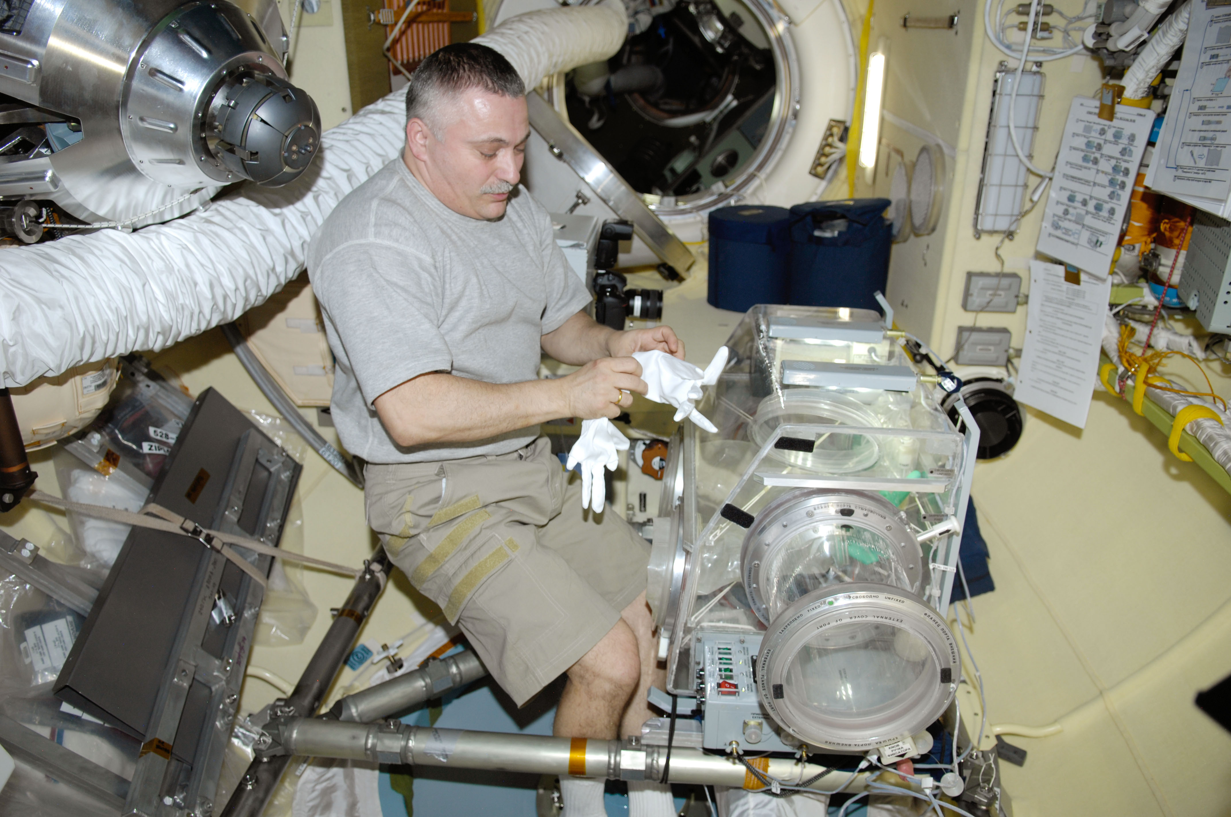 Russian cosmonaut Fyodor Yurchikhin, Expedition 24 flight engineer, prepares the Russian Glavboks-S (Glovebox) for the bioscience experiment ASEPTIC (BTKh-39) in the Poisk Mini-Research Module 2 (MRM2) of the International Space Station.